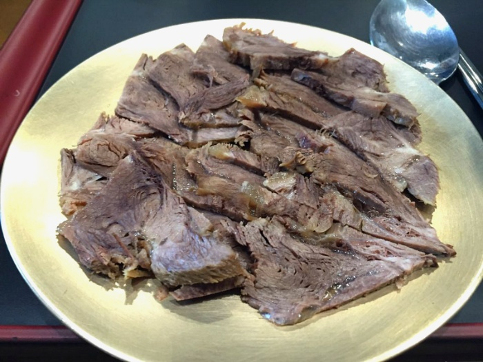 pyeonyuk (pressed boiled beef slices)